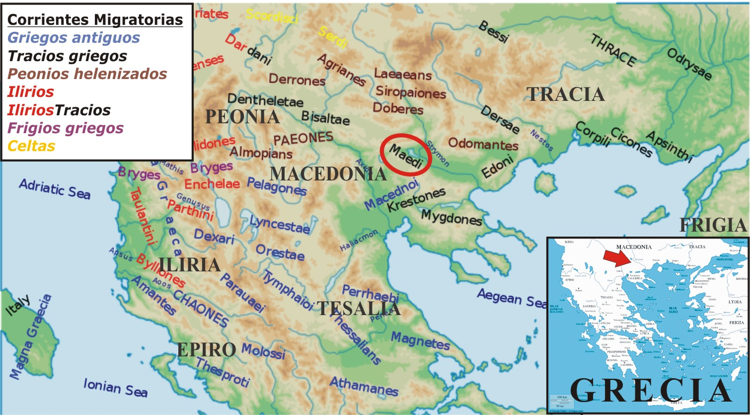 Ancient Greece, Maidoi, Macedonia. Greek Thrace. Classical and Hellenistic Age. Sources: N G Hammond, The Kingdoms of Illyria c. 400 - 167 BC. Collected Studies, Vol 2, 1993. J Wilkes. The Illyrians. Blackwell, 1992. A Toynbee. What was the ancestral language of the Paeones?. Chapter V, Some Problems of Greek History, 1969 Z Archibald Space, Hierarchy & Community in Archaic & Classical Macedonia, Thessaly & Thrace; Fig 12.3. Empty map from: Dodona location.svg Derived from; Map of ancient Epirus and environs (English).svg & Ancient Greeks Paeonians Illyrians Thracians Contact Zone Map (English).png Bassed on the work of Mary Rose (B54)